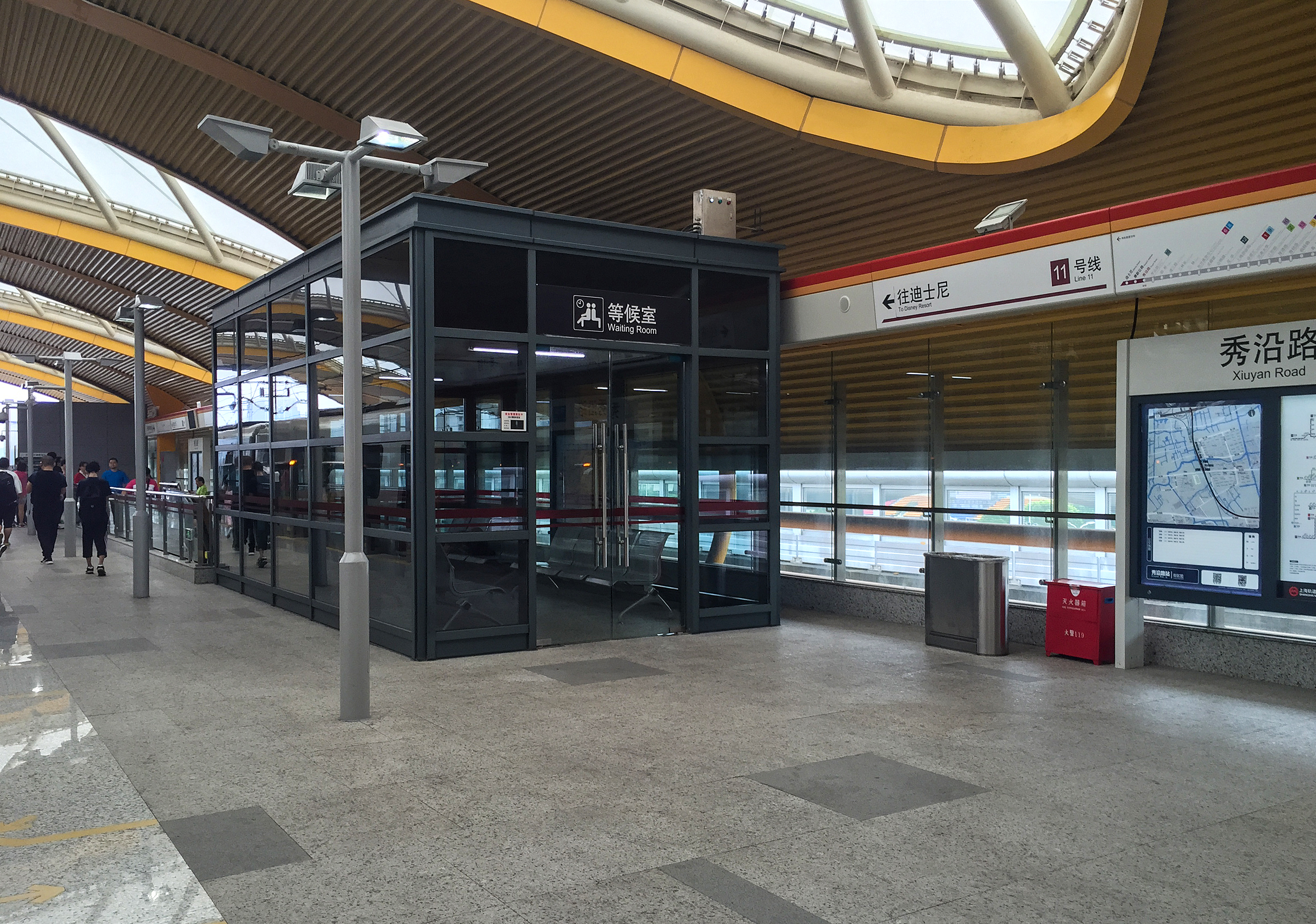 Hey there's even a waiting room, although really small.